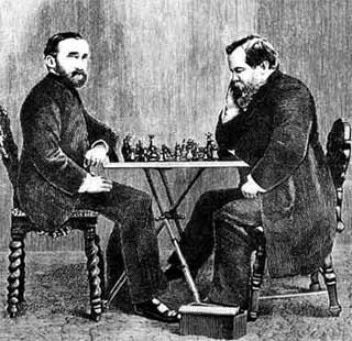 Engraving made from photograph of chess players Steinitz and Zukertort playing in one of their series of 1886 championship games, this one in New Orleans